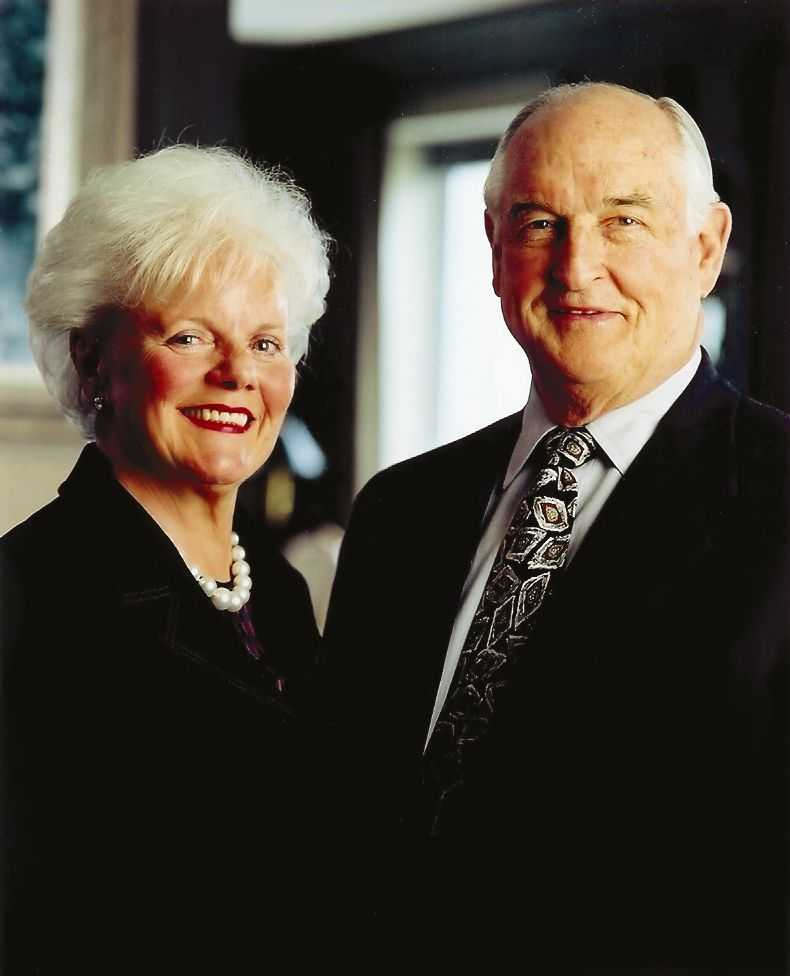 Suzanne and Walter Scott